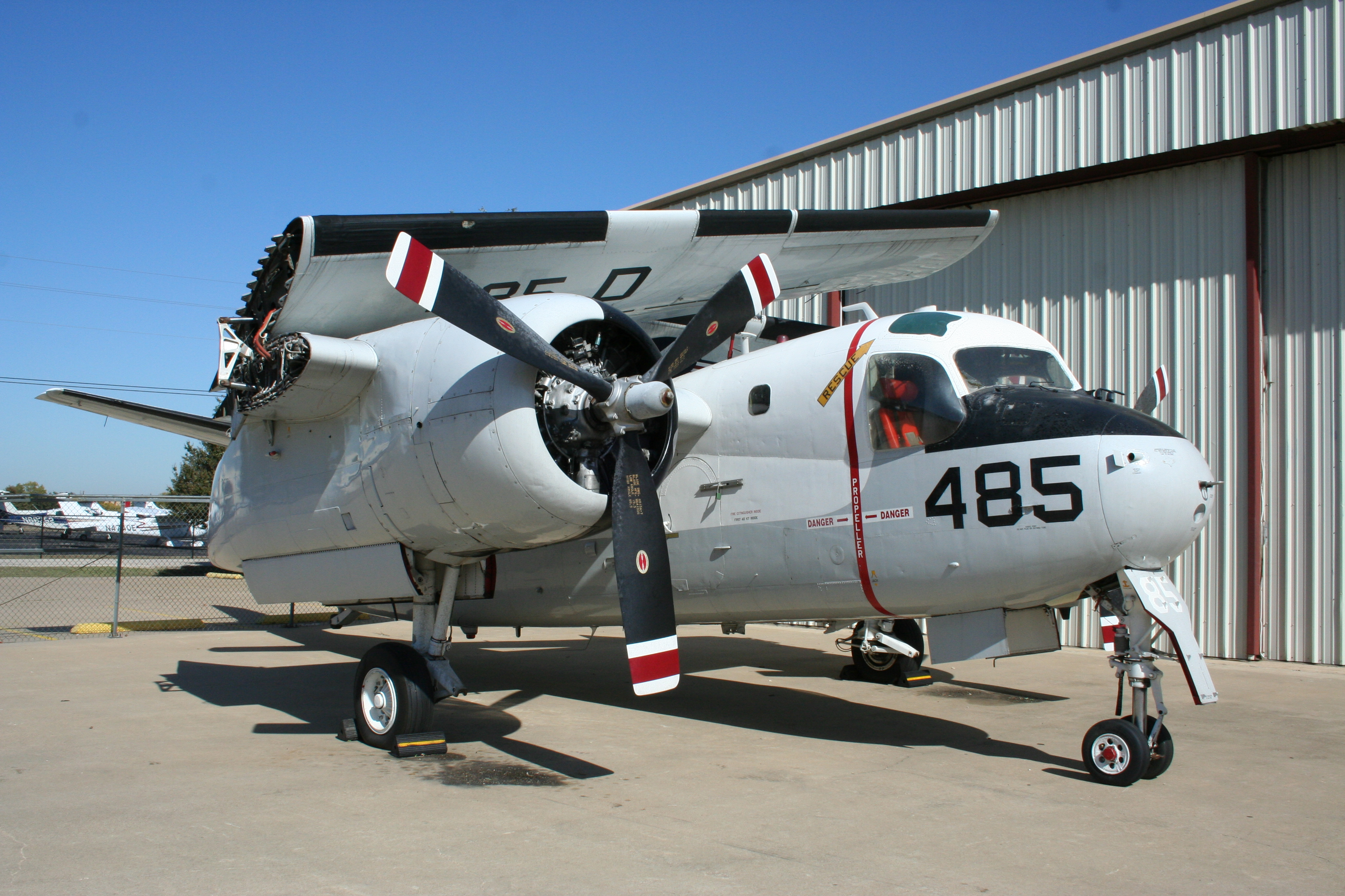 Cavanaugh Flight Museum-2008-10-29-092